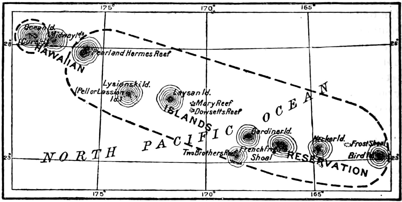 Illustration of the Hawaiian Islands Reservation. This map is an attachment to Executive Order 1019 which originally defined the reservation in 1909. It is today the Hawaiian Islands National Wildlife Refuge.